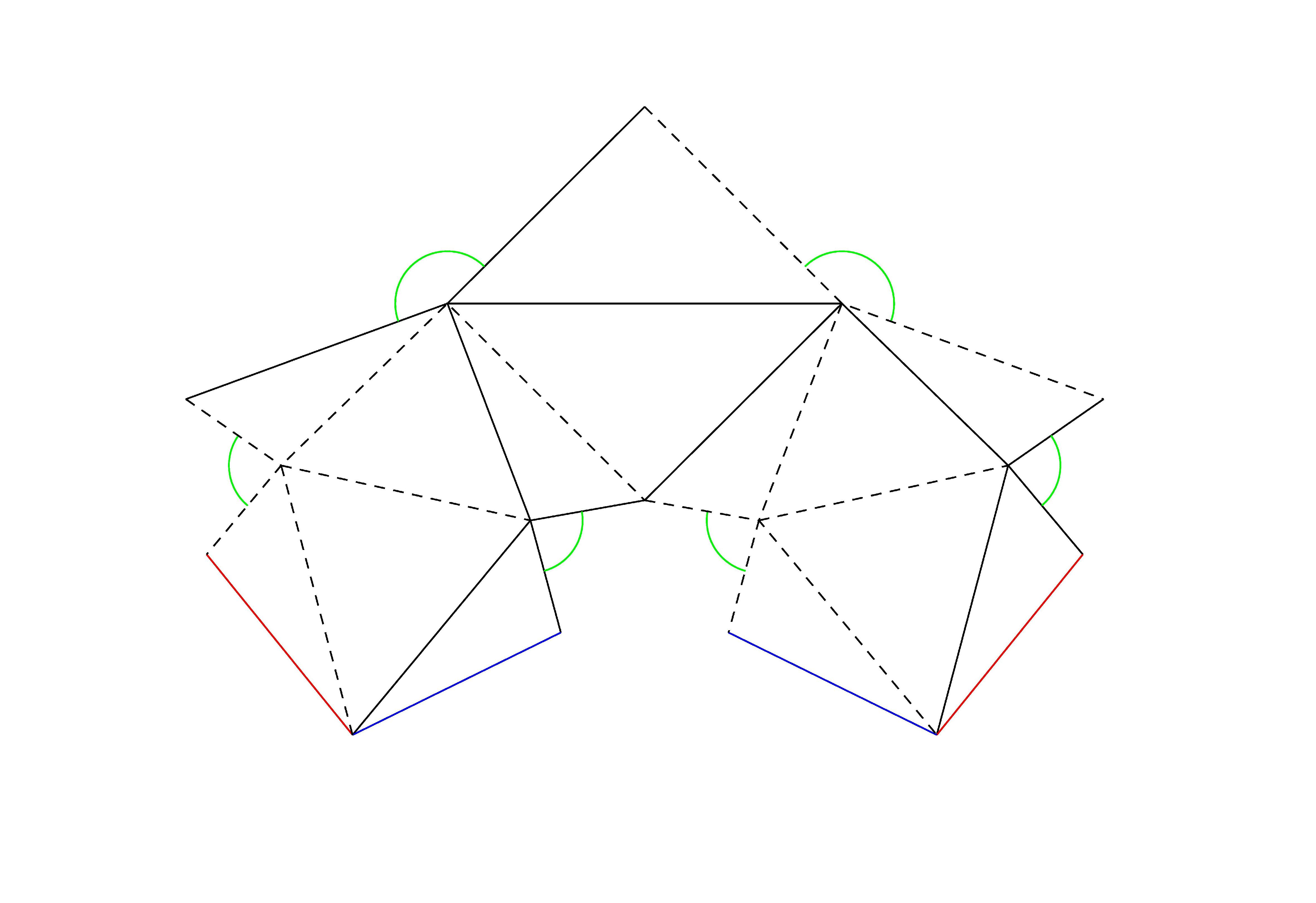 A development of the Steffen flexible polyhedron. Развёртка изгибаемого многогранника Штеффена.